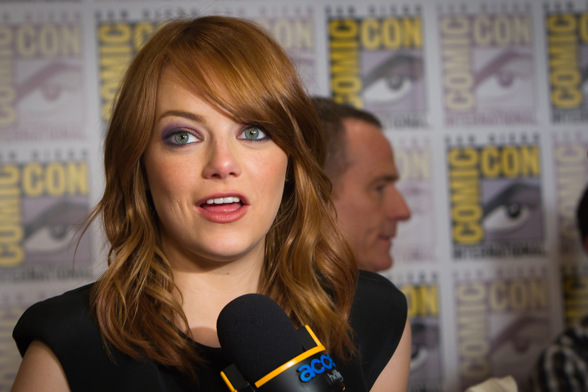 Emma Stone at the Comic-Con 2011.